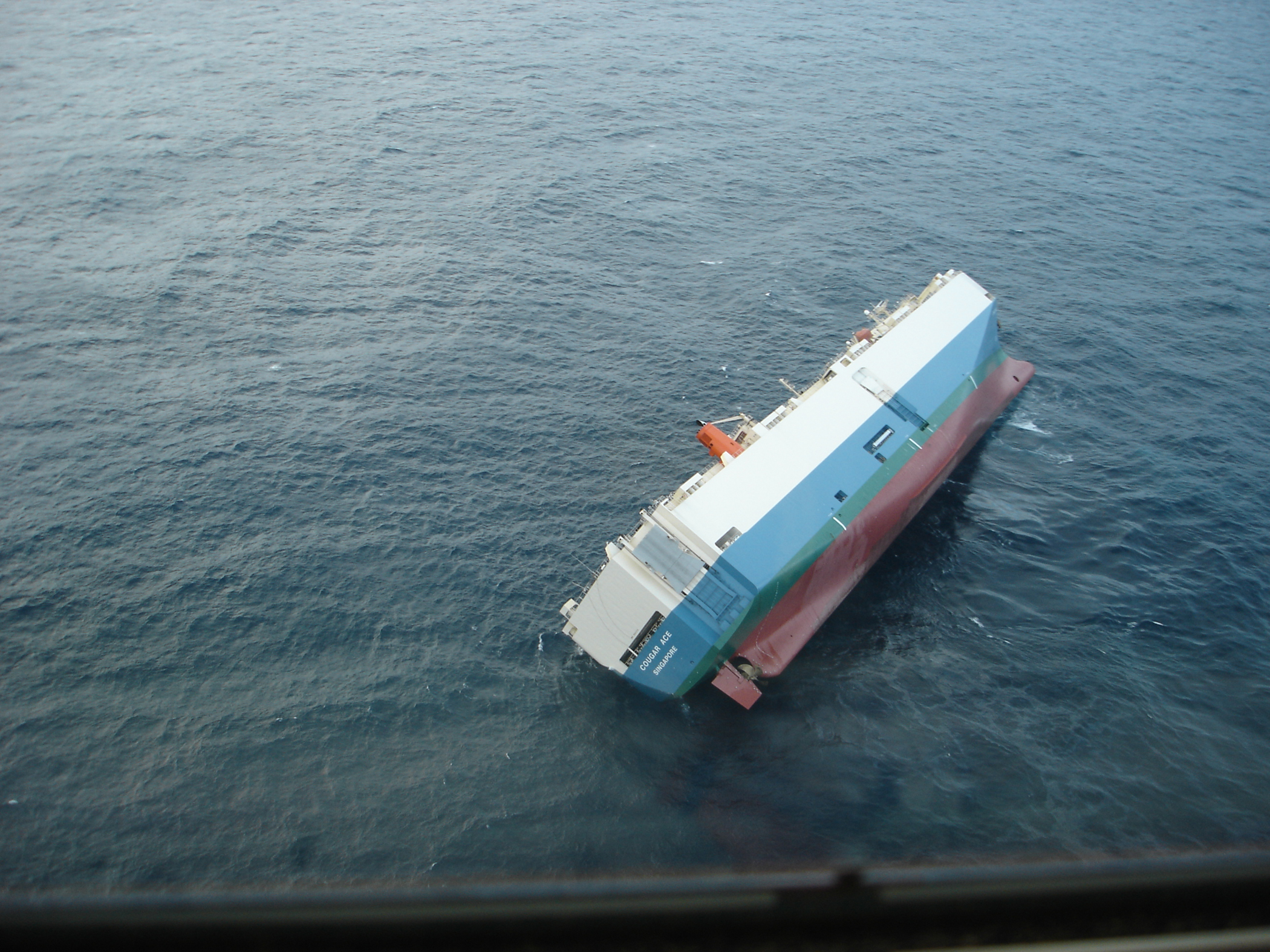 Image of Cougar Ace Listing on 24 July 2006